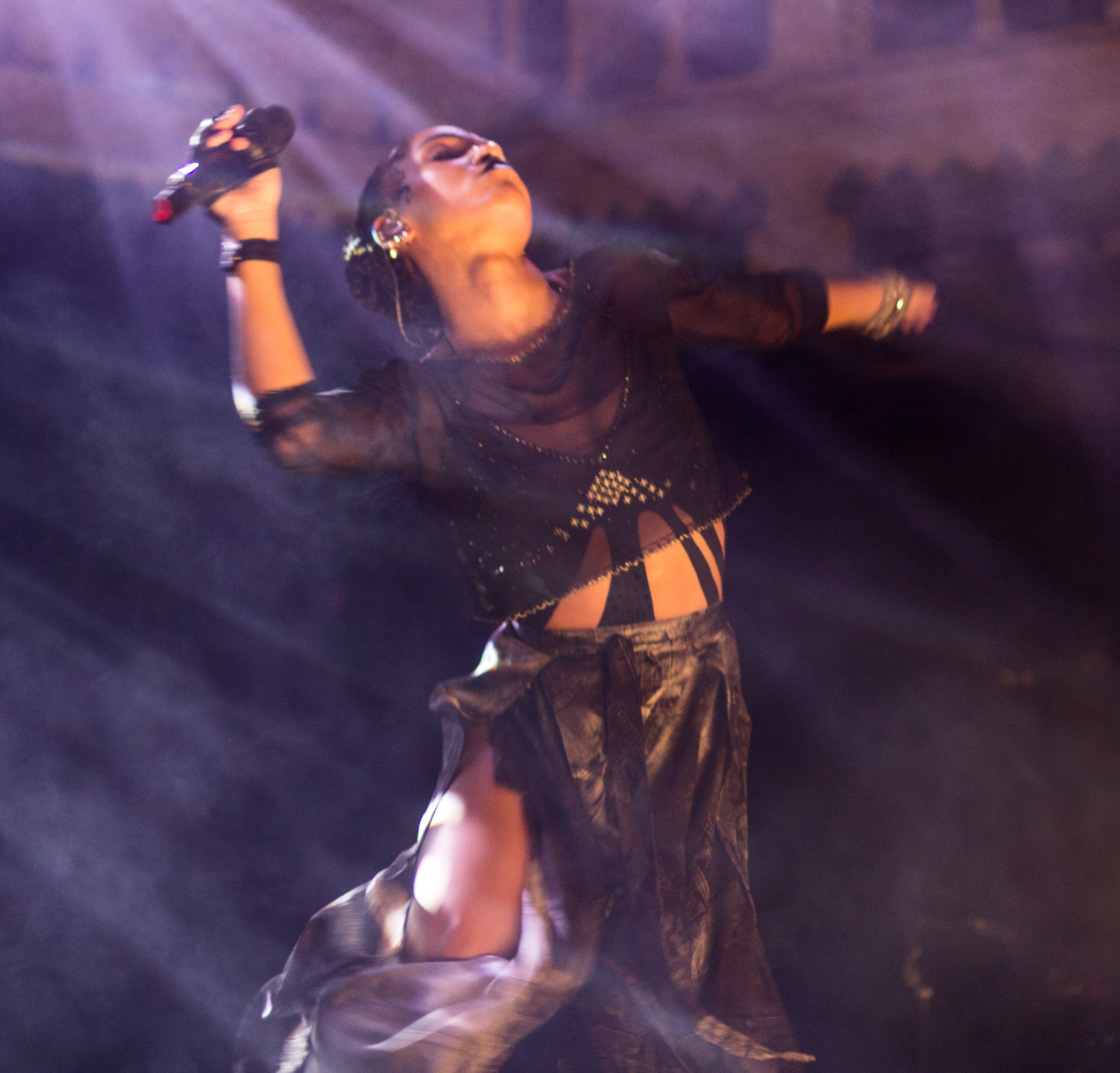 FKA twigs in live at Paradiso, Amsterdam